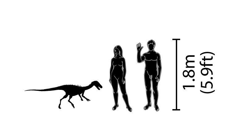 image created by me user debivort 12.06